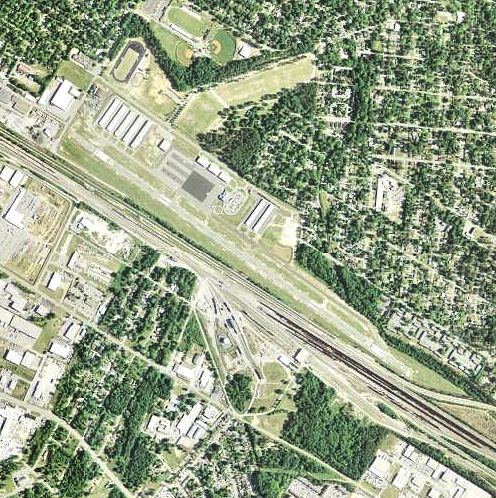 USGS digital orthophoto of Jim Hamilton – L.B. Owens Airport in South Carolina